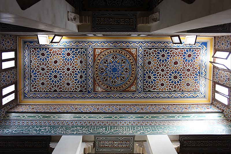 Dome, el-'Arif Mosque, Sohag, Egypt